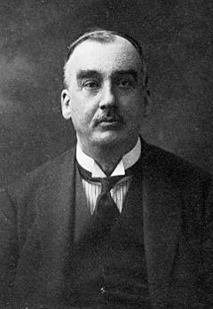 A portrait photograph of the author John Meade Falkner